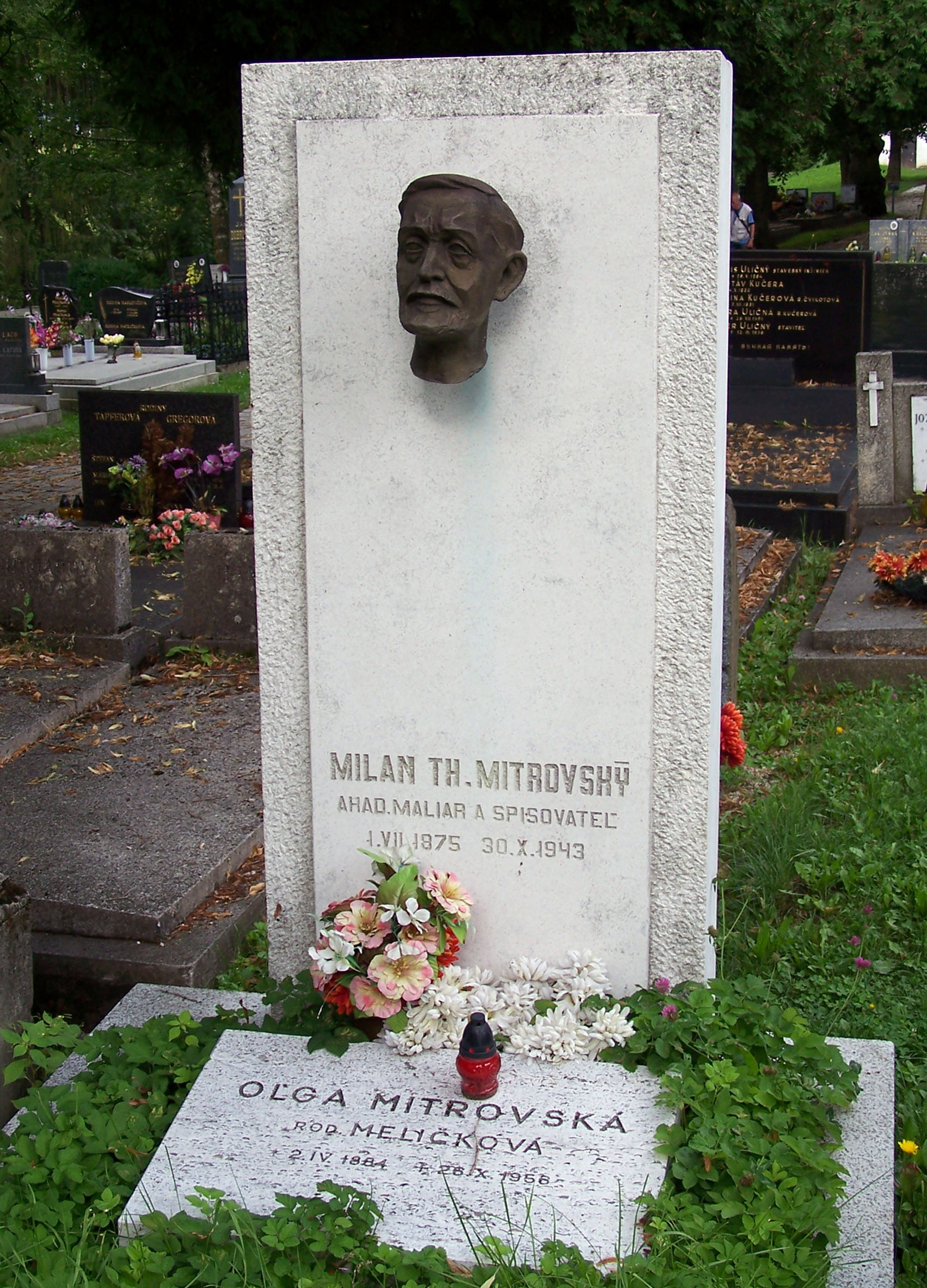 Grave of Milan Thomka Mitrovský at the National Cemetery in Martin, Slovakia